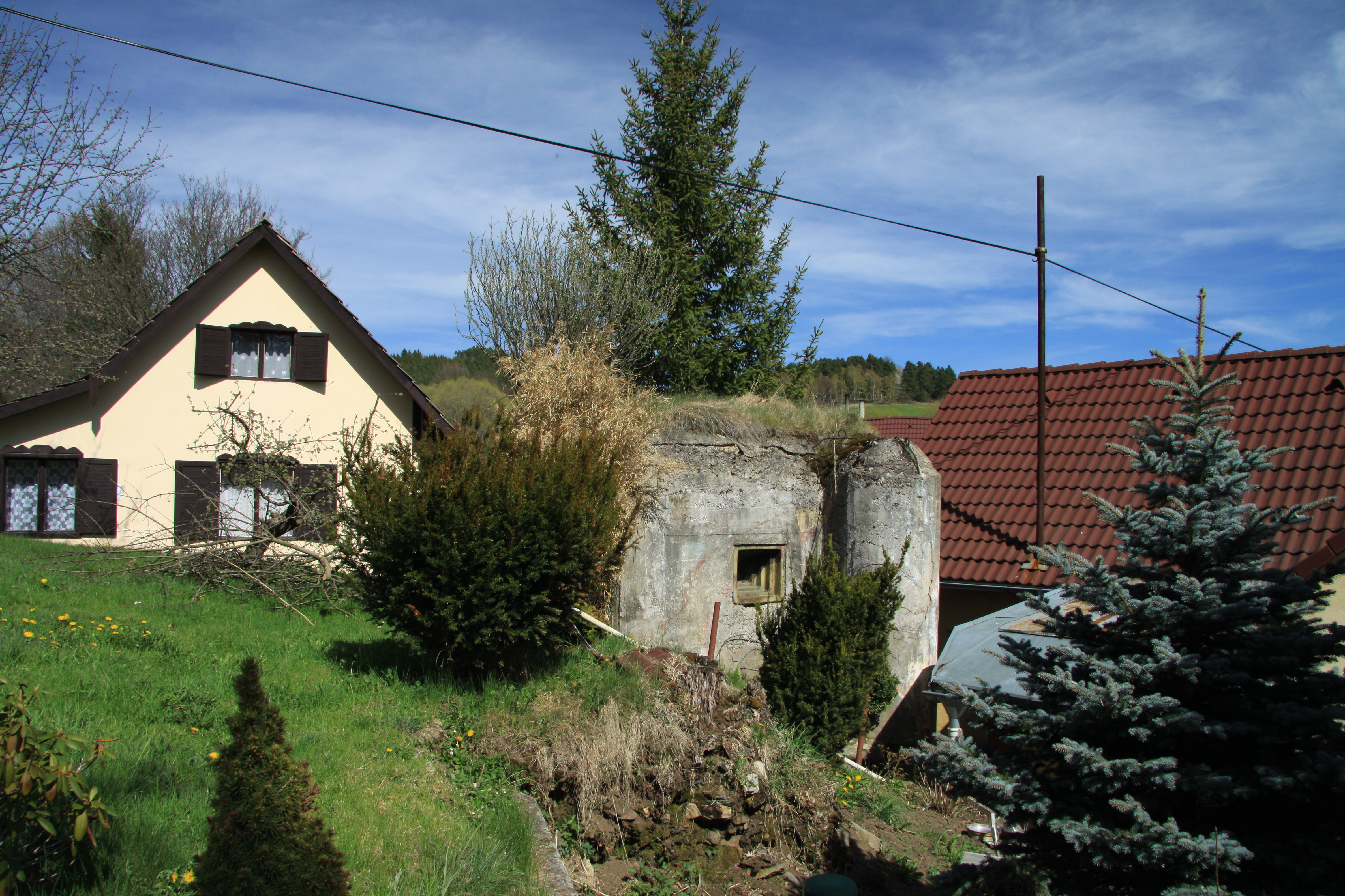 Czechoslovak border fortification before World War II in Křenov village, part of Kájov village in Český Krumlov District, Czech Republic